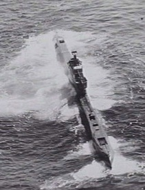 Cropped photograph of British Parthian class submarine HMS Phoenix. She was acting as a a target with the RAN in anti-submarine exercises